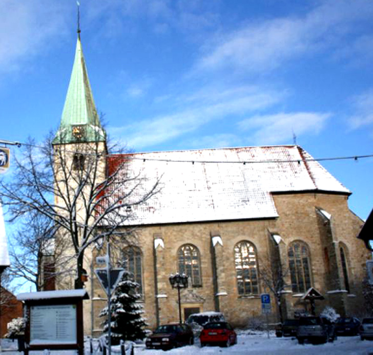 St. Pankratius Südkirchen